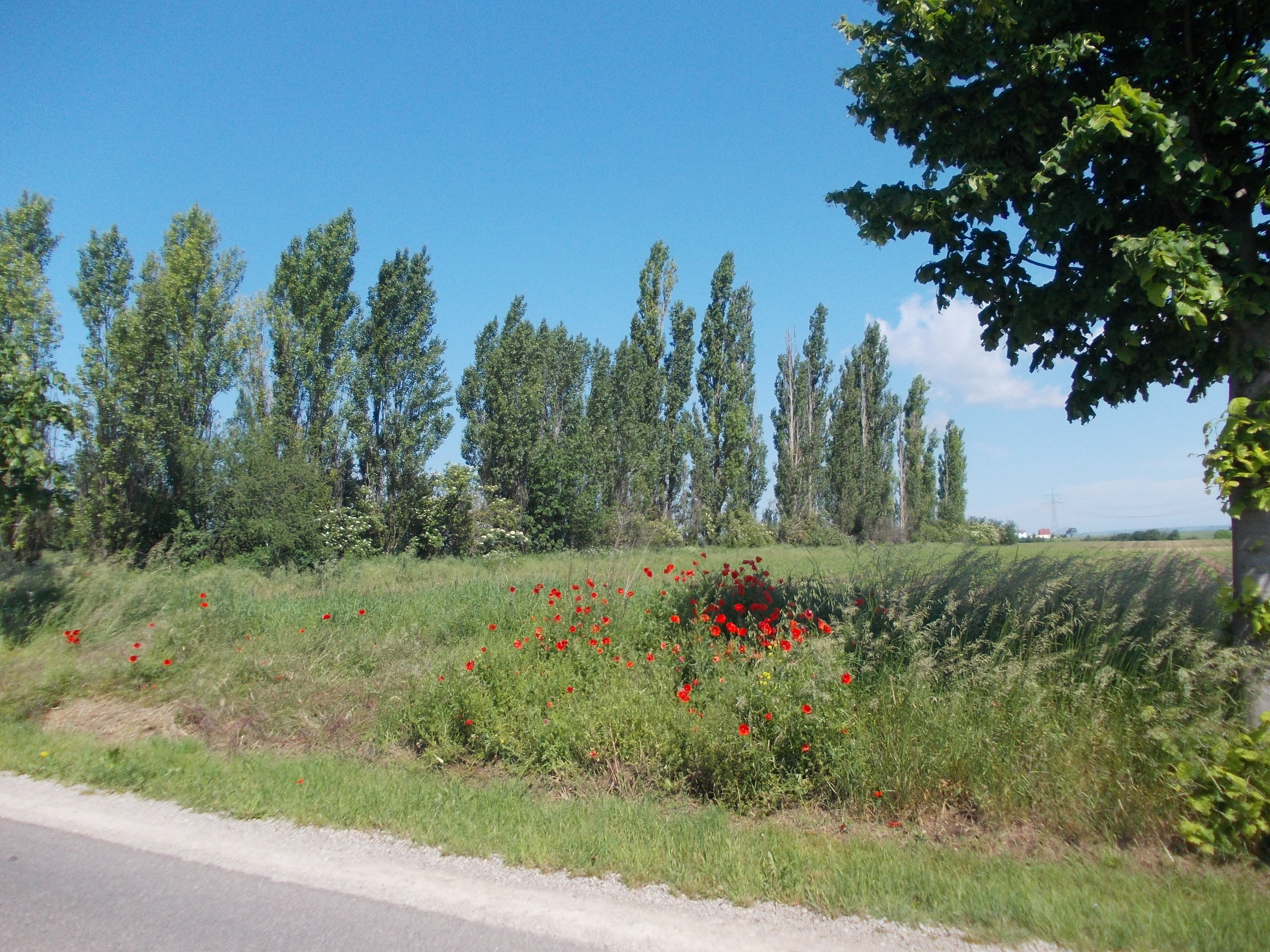 Windbreak near Alberstedt (Farnstädt, district: Saalekreis, Saxony-Anhalt)